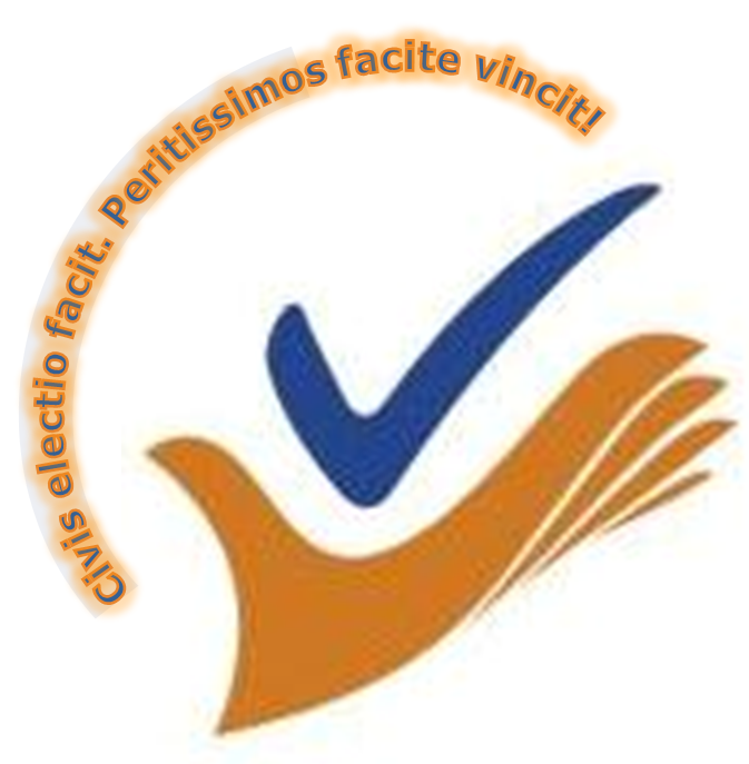 Emblem of political strategists